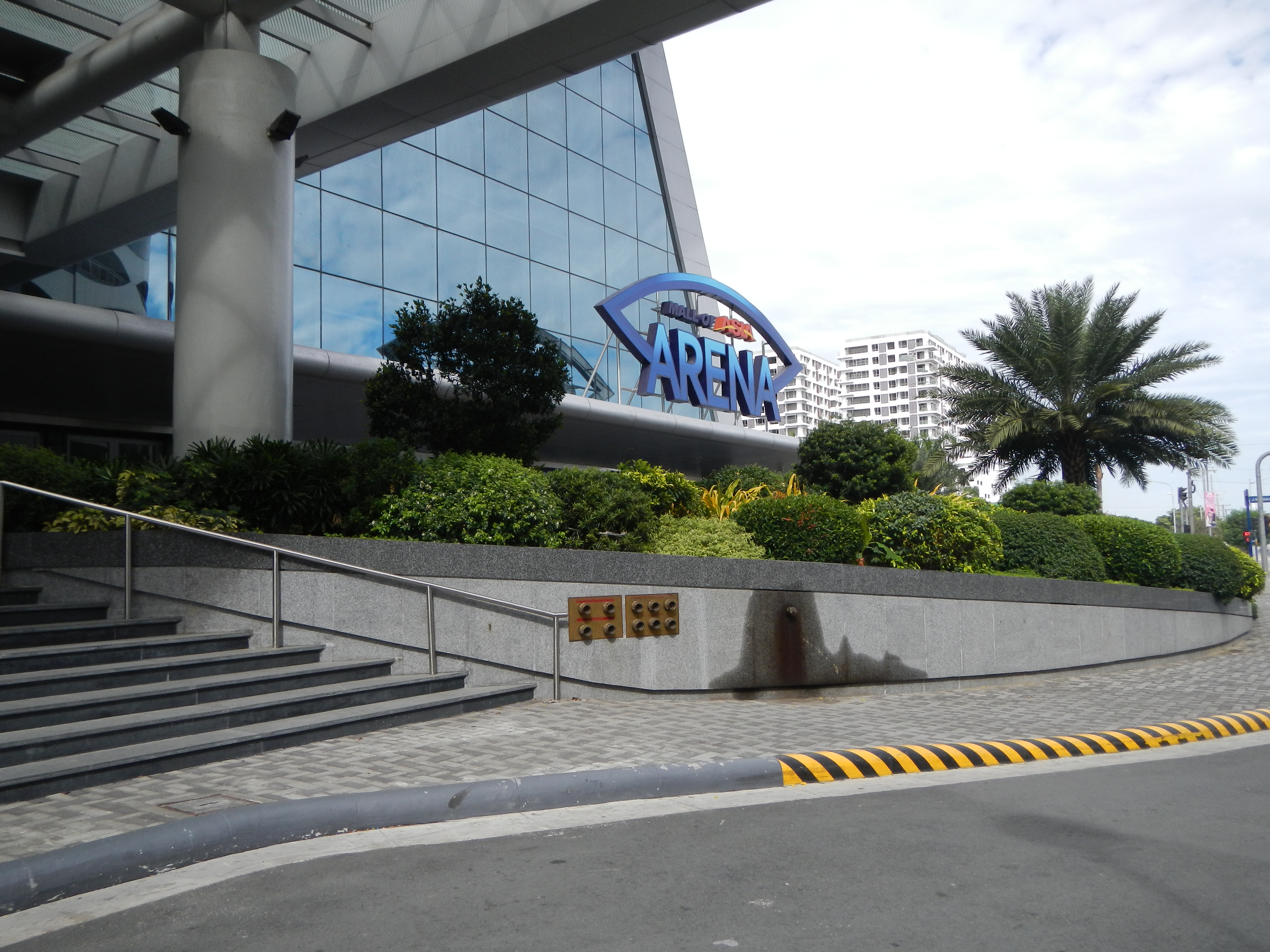 Upload Wizard photos of the - Bay City, Metro Manila [1] the reclamation area[2] located west of Roxas Boulevard on Manila Bay in Metro Manila, the Philippines asplit between the cities of Pasay [3] on the north side and Parañaque[4] on the south side beside the carpark of SM Mall of Asia [5] (the fourth largest shopping mall in the world), and is considered an important part of the Mall of Asia Complex (a 60-hectare business and leisure park) owned by the SM Group of SM Prime Holdings and c) Mall of Asia Arena[6] beside the Car Park of SM Mall of Asia[7] and its SMX Convention Center [8] just in front of the Mall of Asia Arena[9] to Sunrise Drive cor EDSA exit.